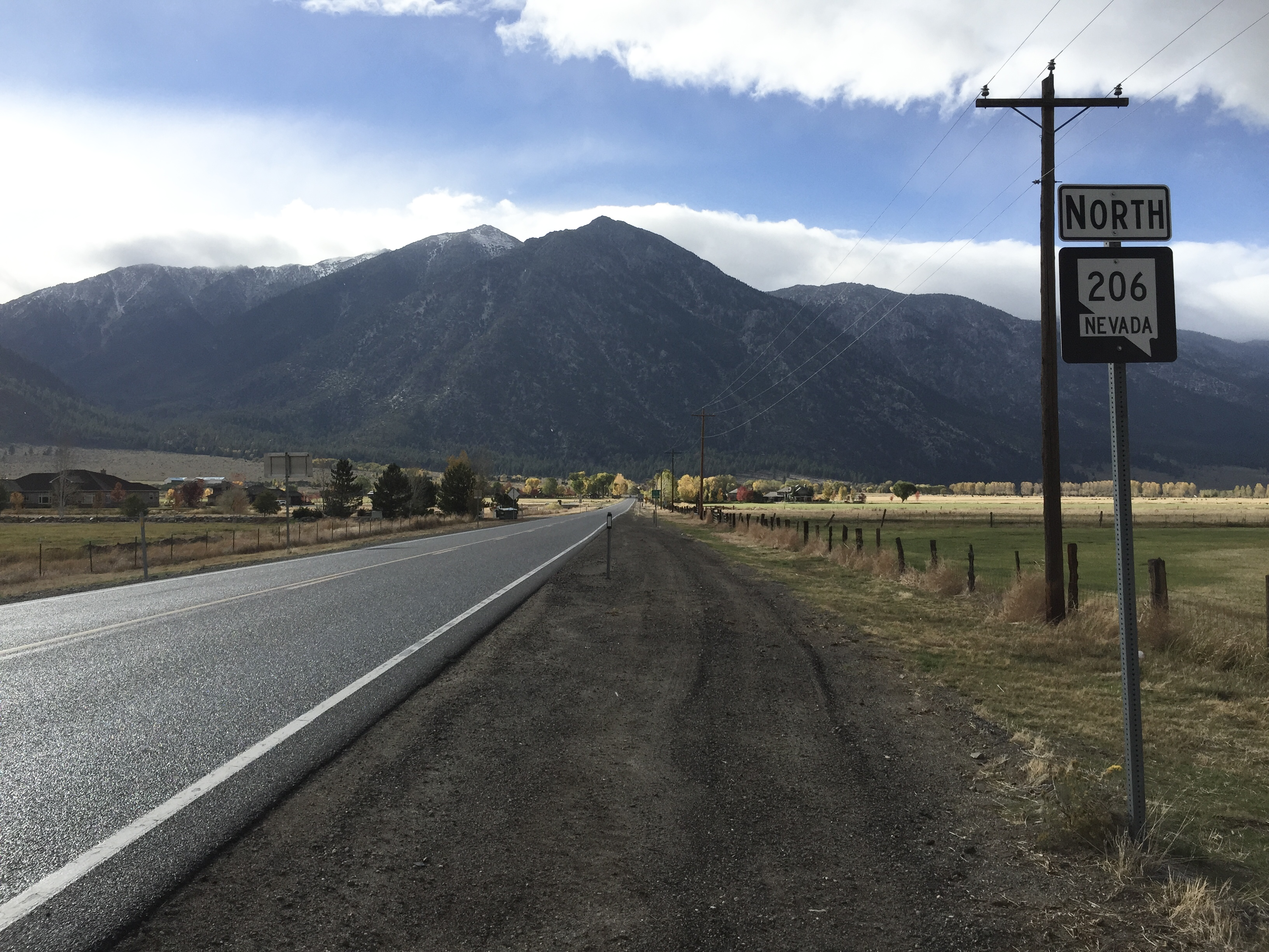 View north from the south end of Nevada State Route 206 (Fairview Lane) in Douglas County, Nevada